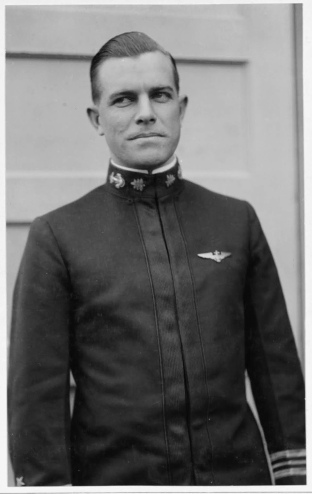 Official portrait of Patrick N. L. Bellinger as Lieutenant commander, USN in 1919 (Naval History and Heritage Command image).